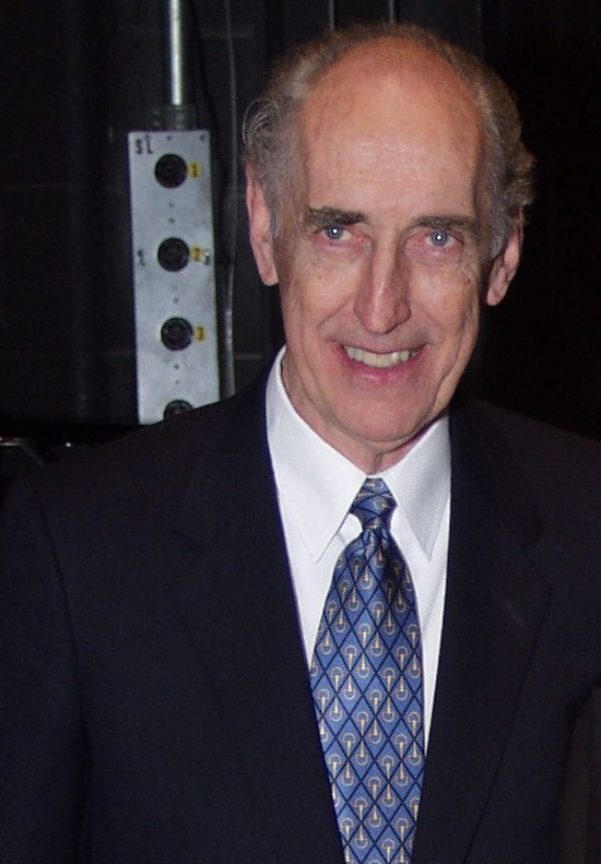 Photo of American saxophonist Eugene Rousseau